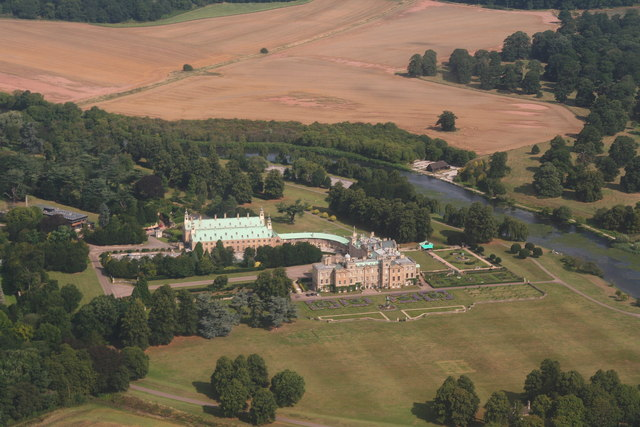 Welbeck Abbey (aerial 2013)